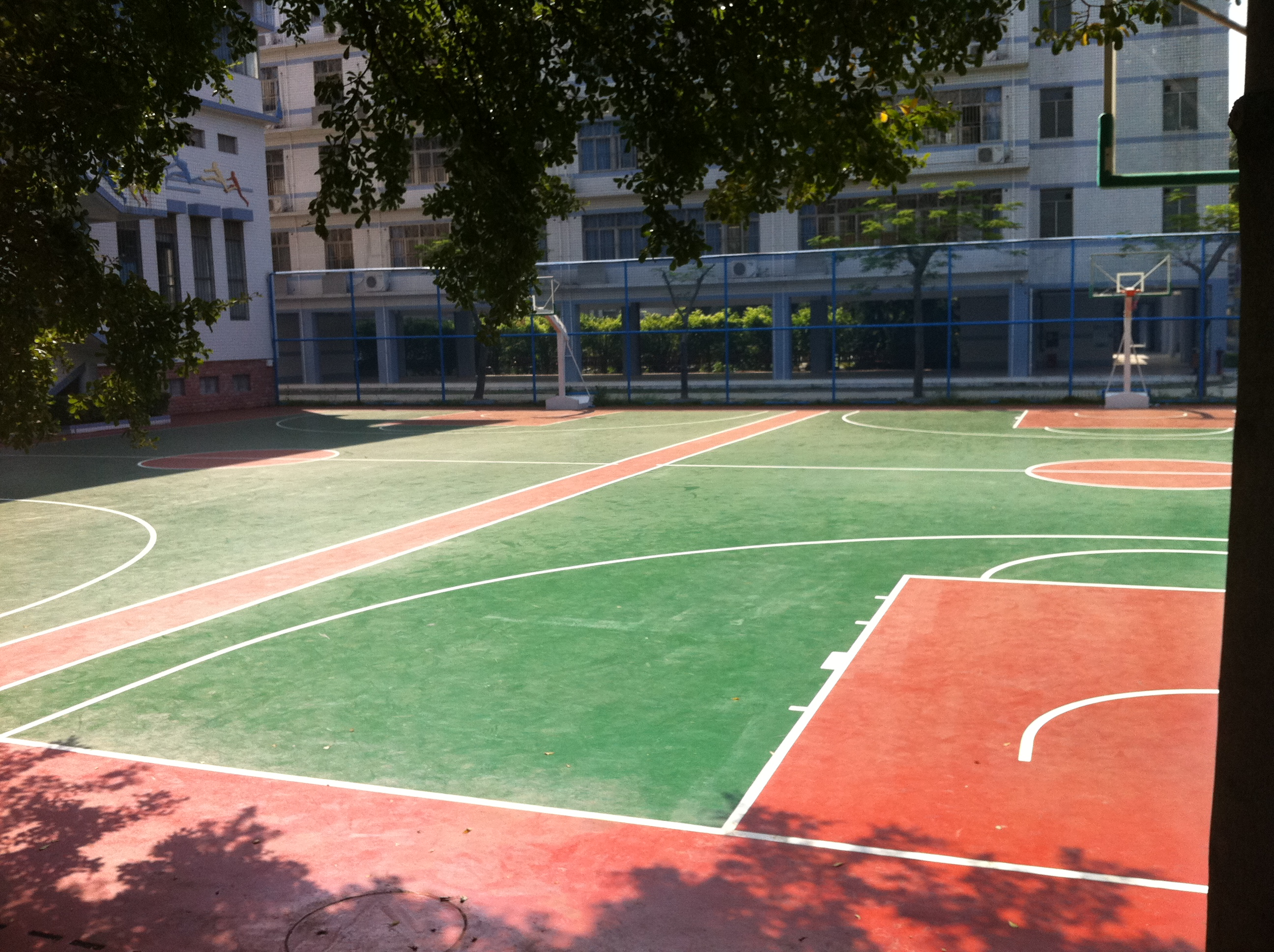 Basketball court/field in Liahua Middle School of Shenzhen